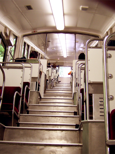 the interior of the cabletrain that travels between Gokurakubashi station and Koya station, the latter being on top of the mountain. It is part of the Nakai Koya Line